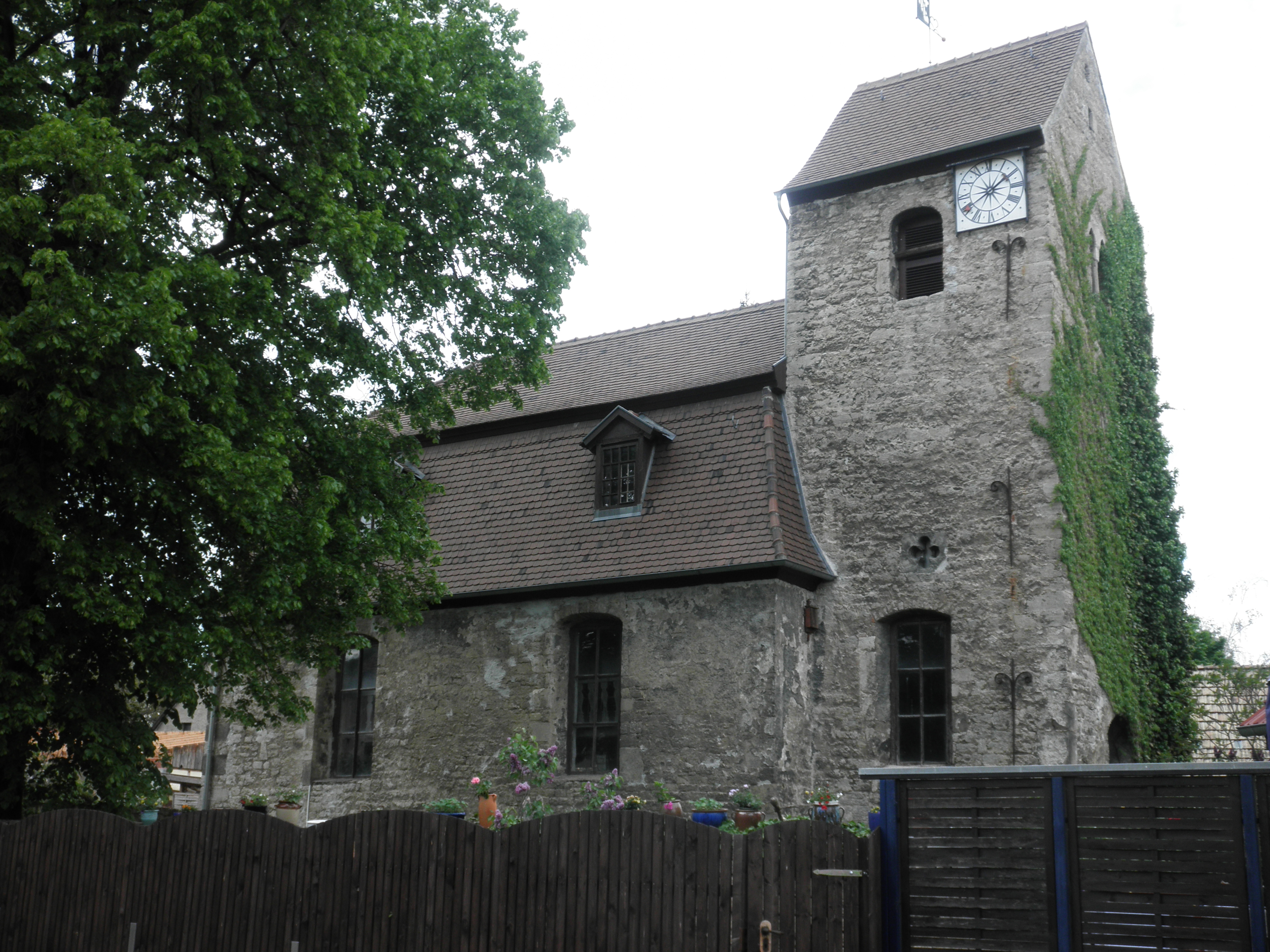 Church in Obergrunstedt (Nohra) in Thuringia